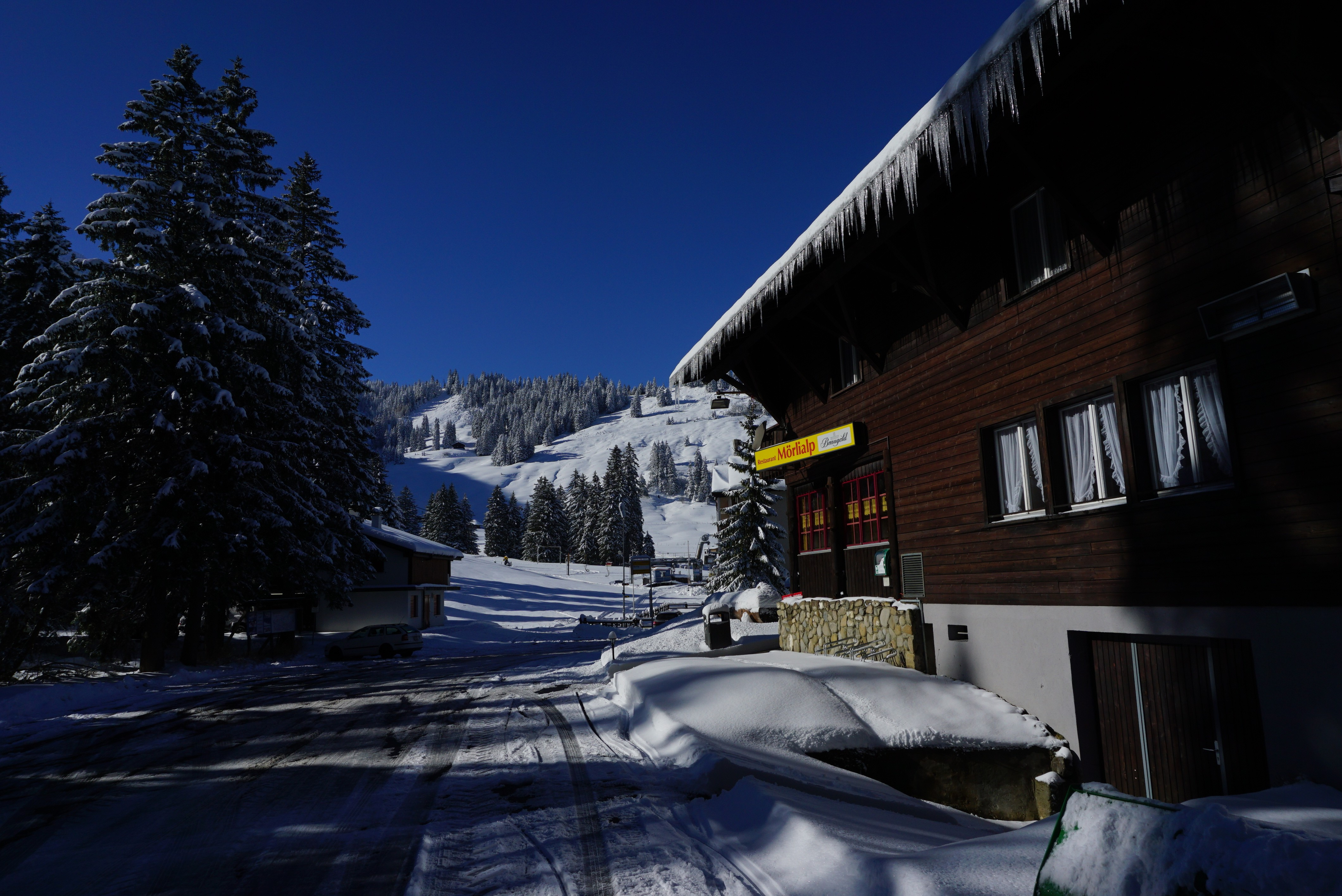 Restaurant Mörlialp (Obwalden), in the ski region of the same name.